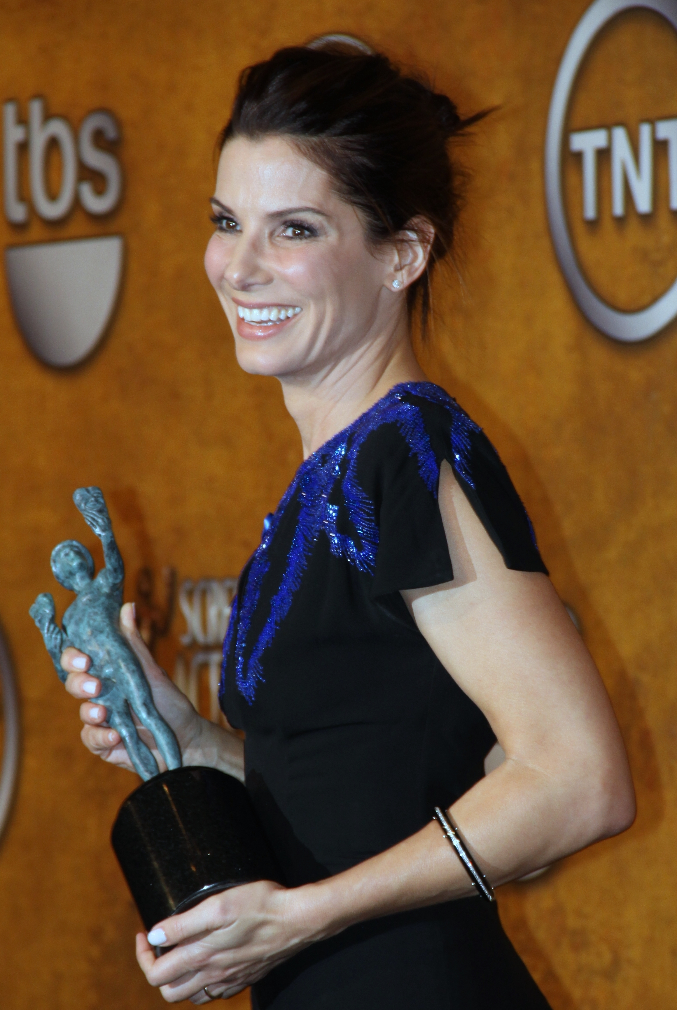 Sandra Bullock, winner of the 2010 SAG award for Outstanding Performance by a Female Actor in a Leading Role for her role as Leigh Anne Tuohy in the film "Blind Side".